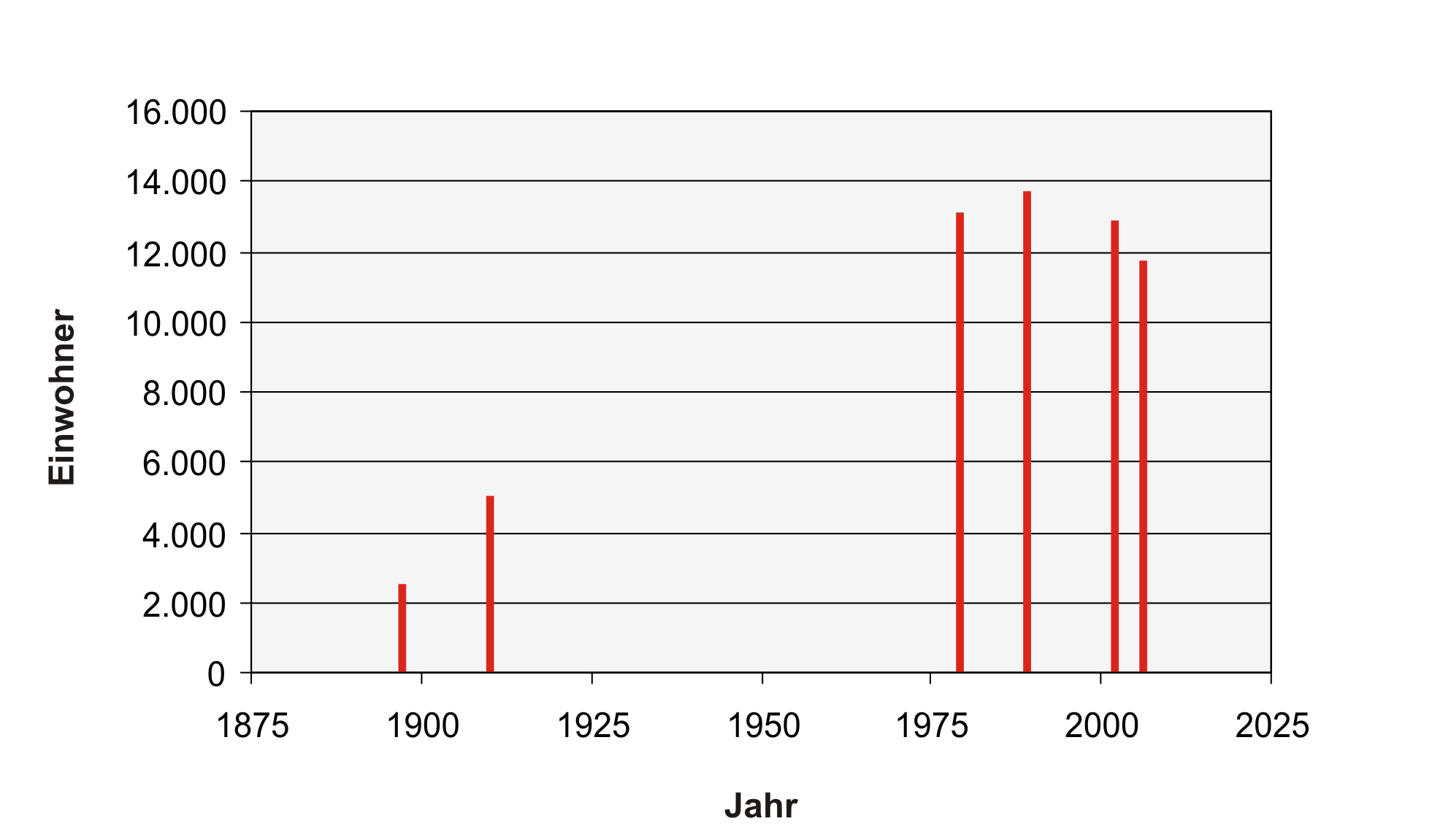 Description = Hlobyne Population Source = own work, Skluesener Date = 09.12.2006 Author = Skluesener